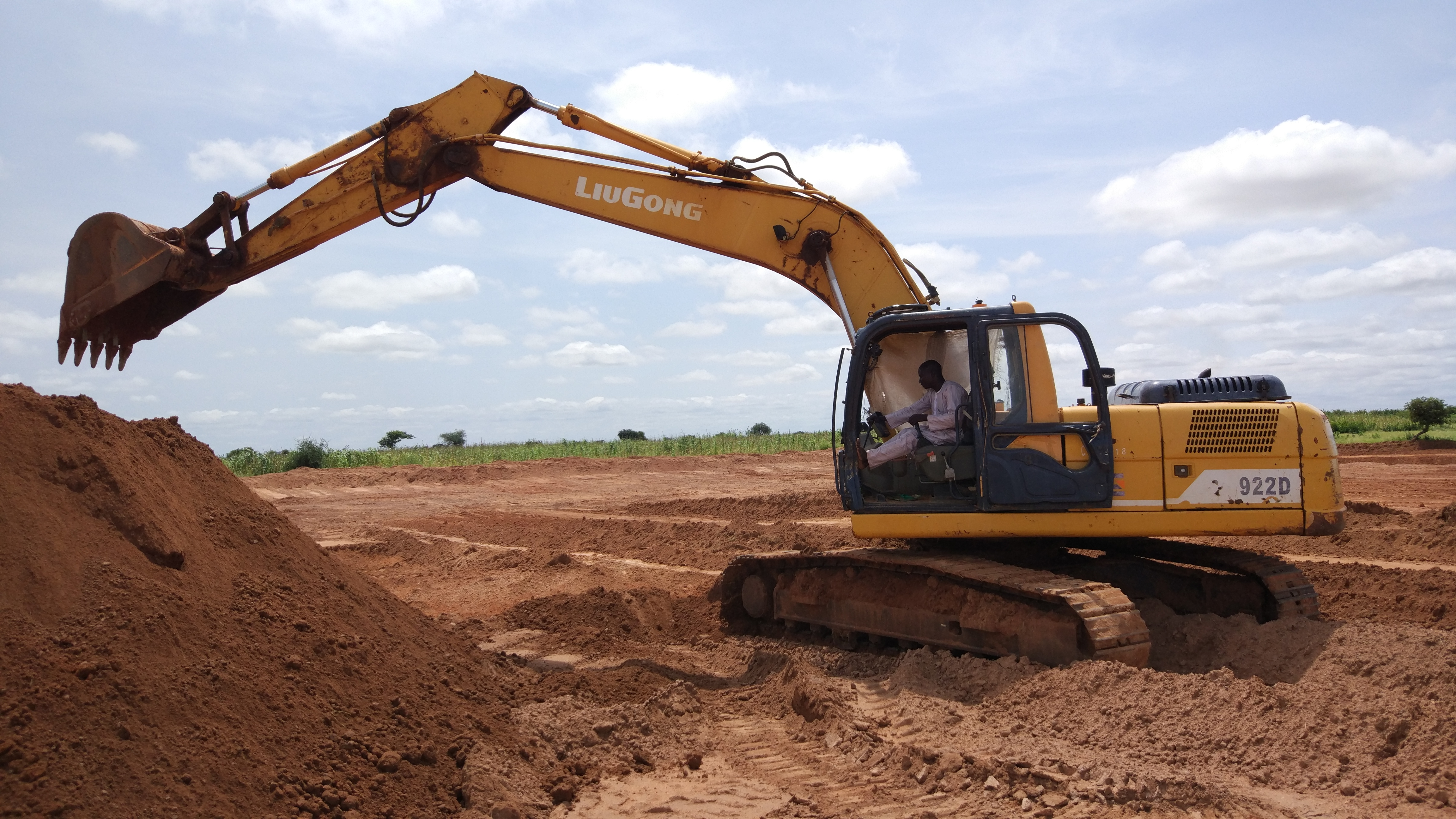 He can operate the excavator skillful This is an image of "African people at work" from Nigeria